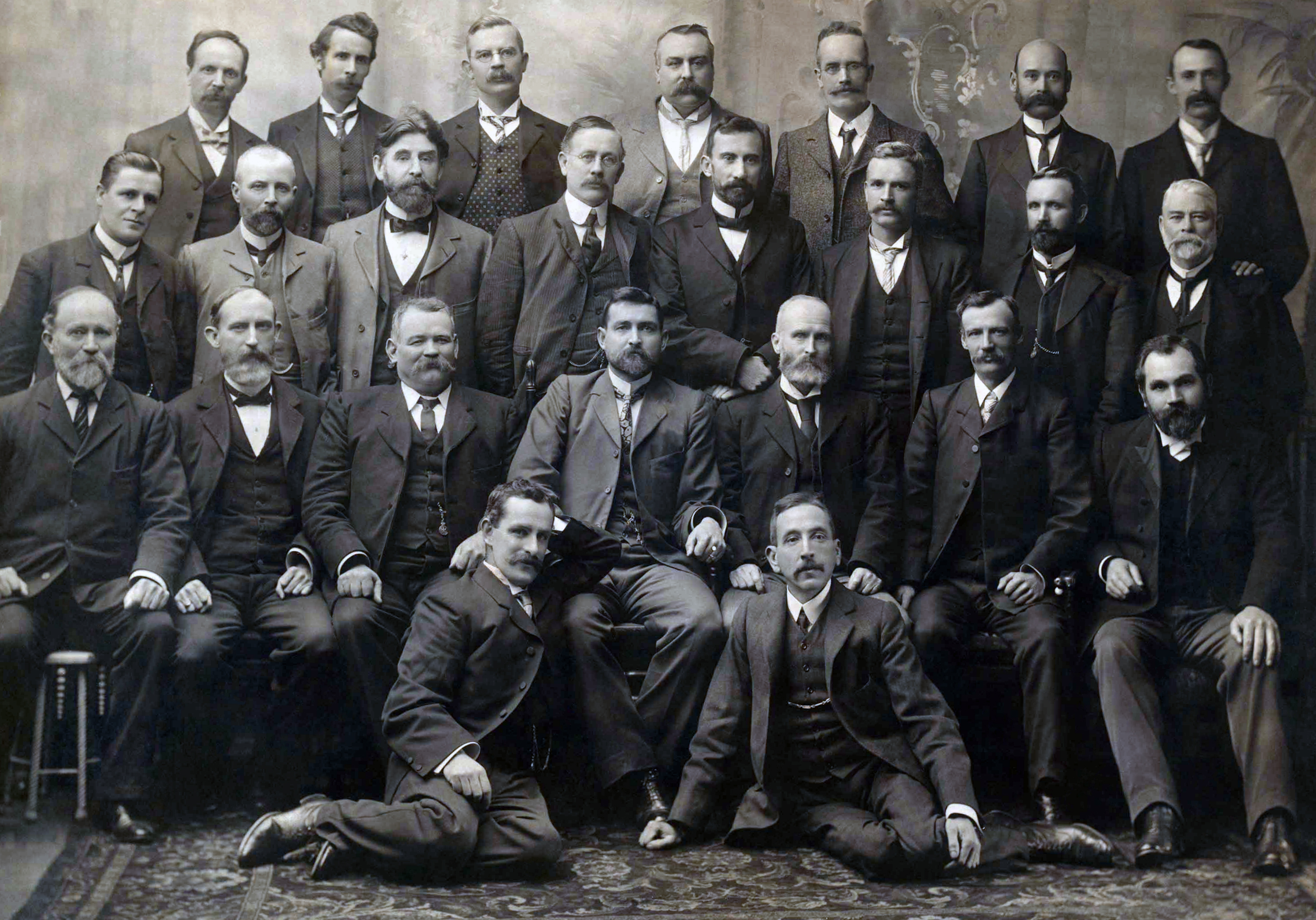 Group photograph of Federal Labour Party MPs elected to the Australian House of Representatives and Australian Senate at the inaugural 1901 election, including Chris Watson, Andrew Fisher, Billy Hughes, Frank Tudor, King O'Malley and Lee Batchelor. From left to right: Back Row - Charles McDonald, George Pearce, Josiah Thomas, James Page, James Fowler, John Barrett, David O'Keefe. Middle row - David Watkins, Thomas Brown, King O'Malley, Hugh Mahon, William Higgs, Andrew Fisher, Hugh de Largie, Frederick Bamford. Front row - William Spence, Anderson Dawson, Gregor McGregor, Chris Watson, James Stewart, Lee Batchelor, James Ronald. Kneeling - Frank Tudor, Billy Hughes.